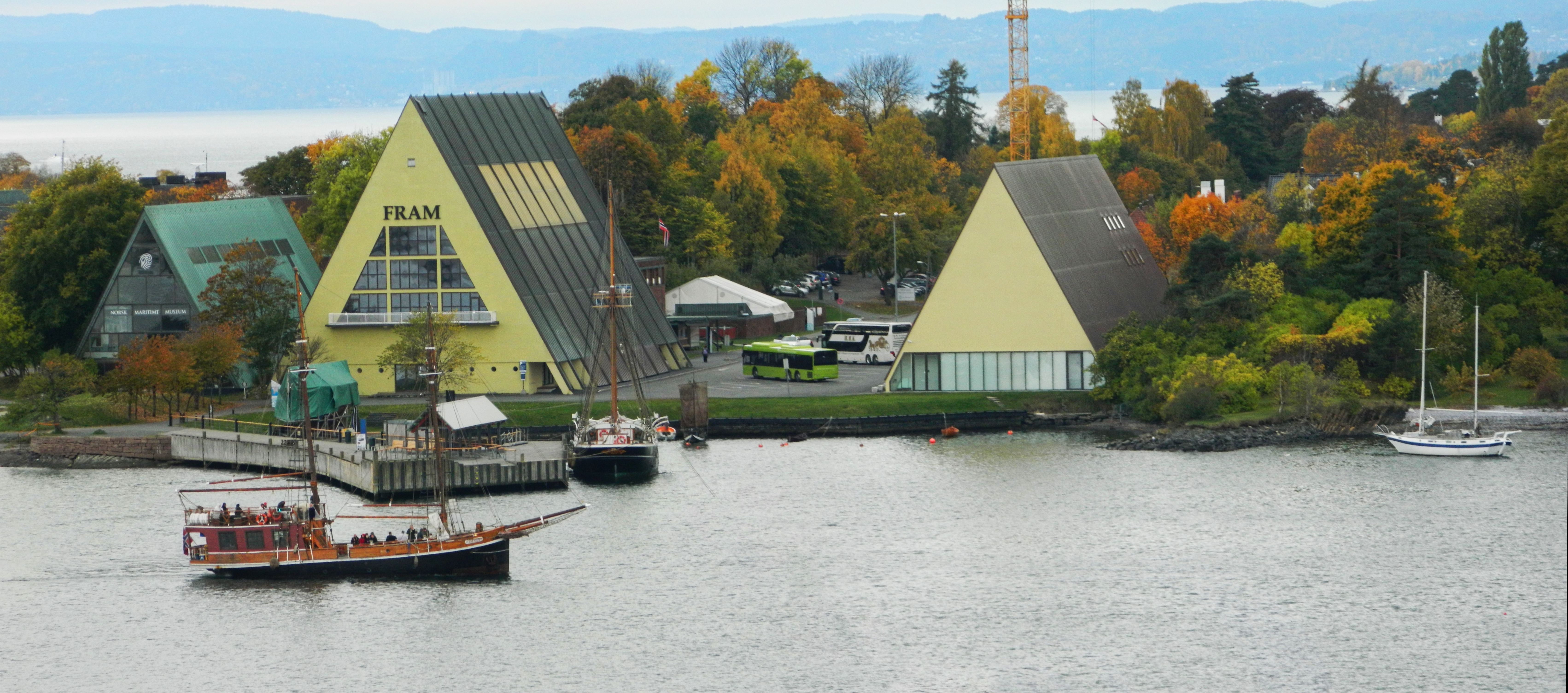 Fram museum with Jomfruen (ship, 1917) in front, Oslo, Norway